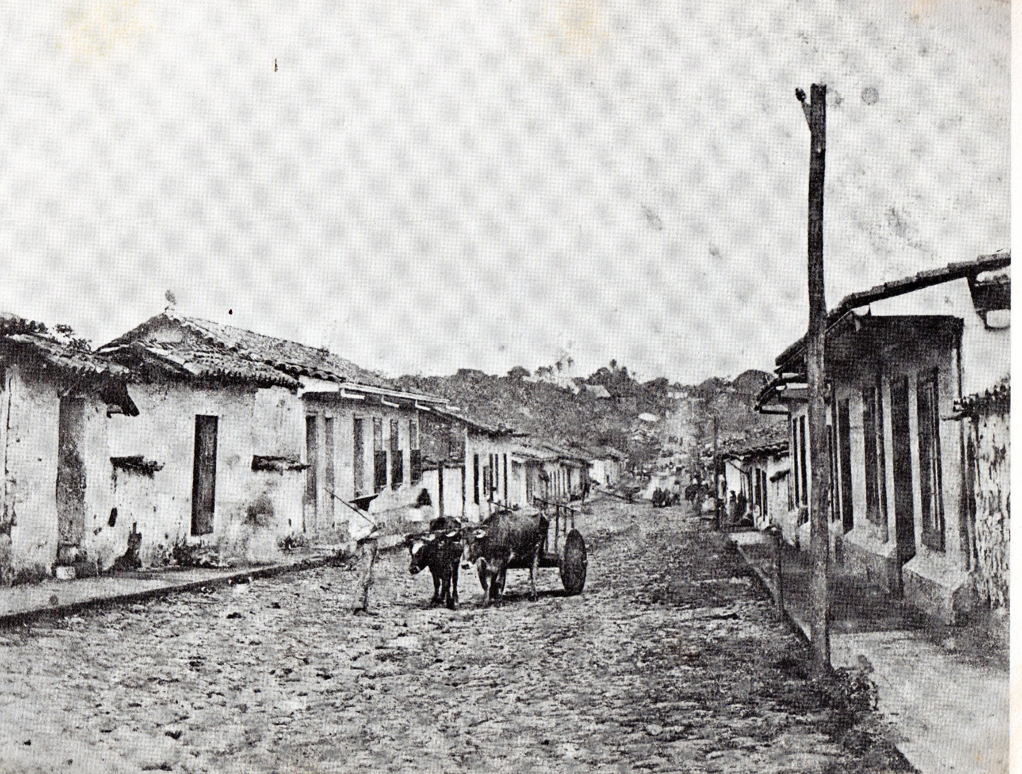 Central avenue of San Jose, capital of Costa Rica, in 1885.